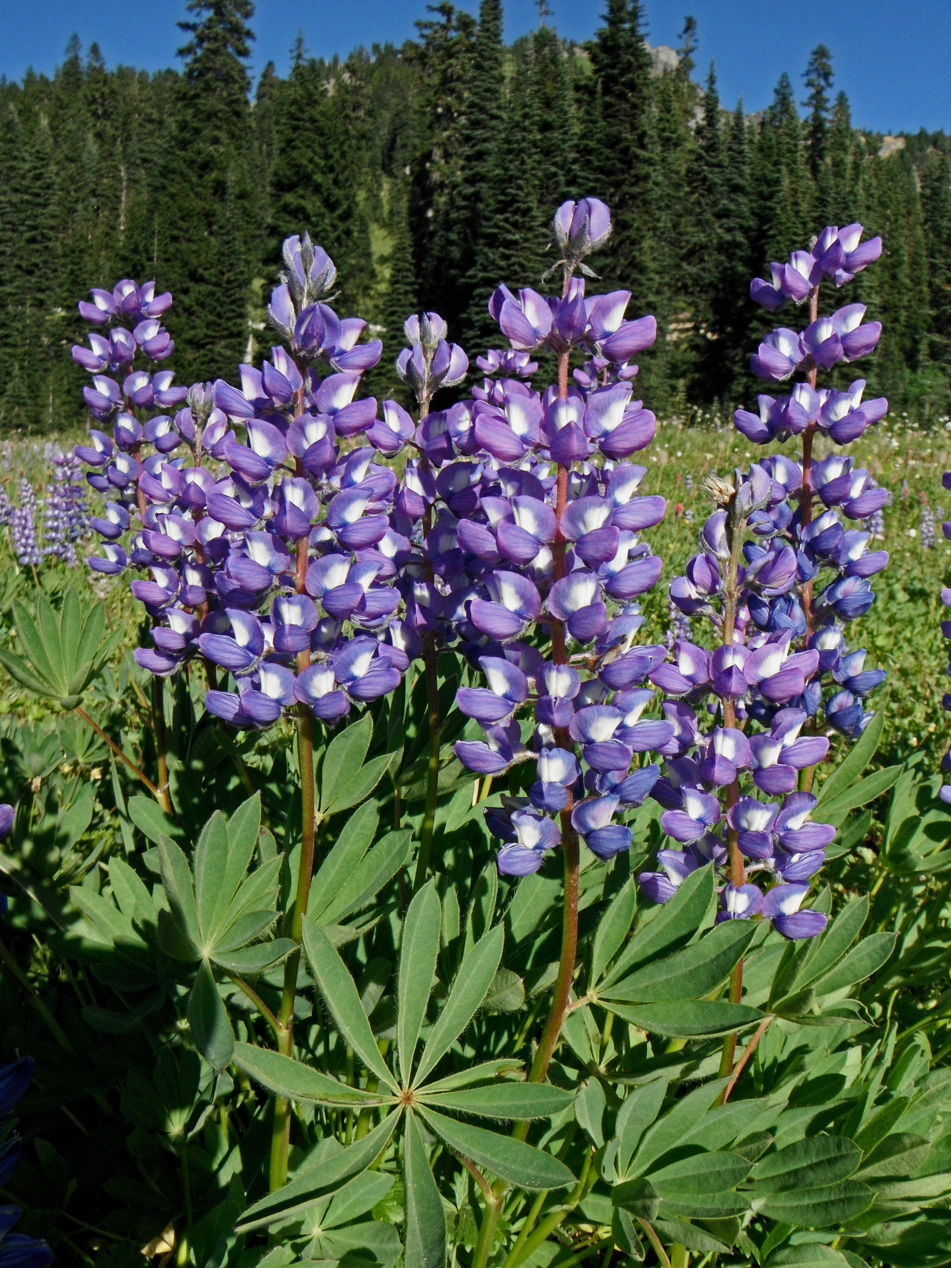 Lupinus arcticus, Mt. Rainier Nat'l Par, WA, USA